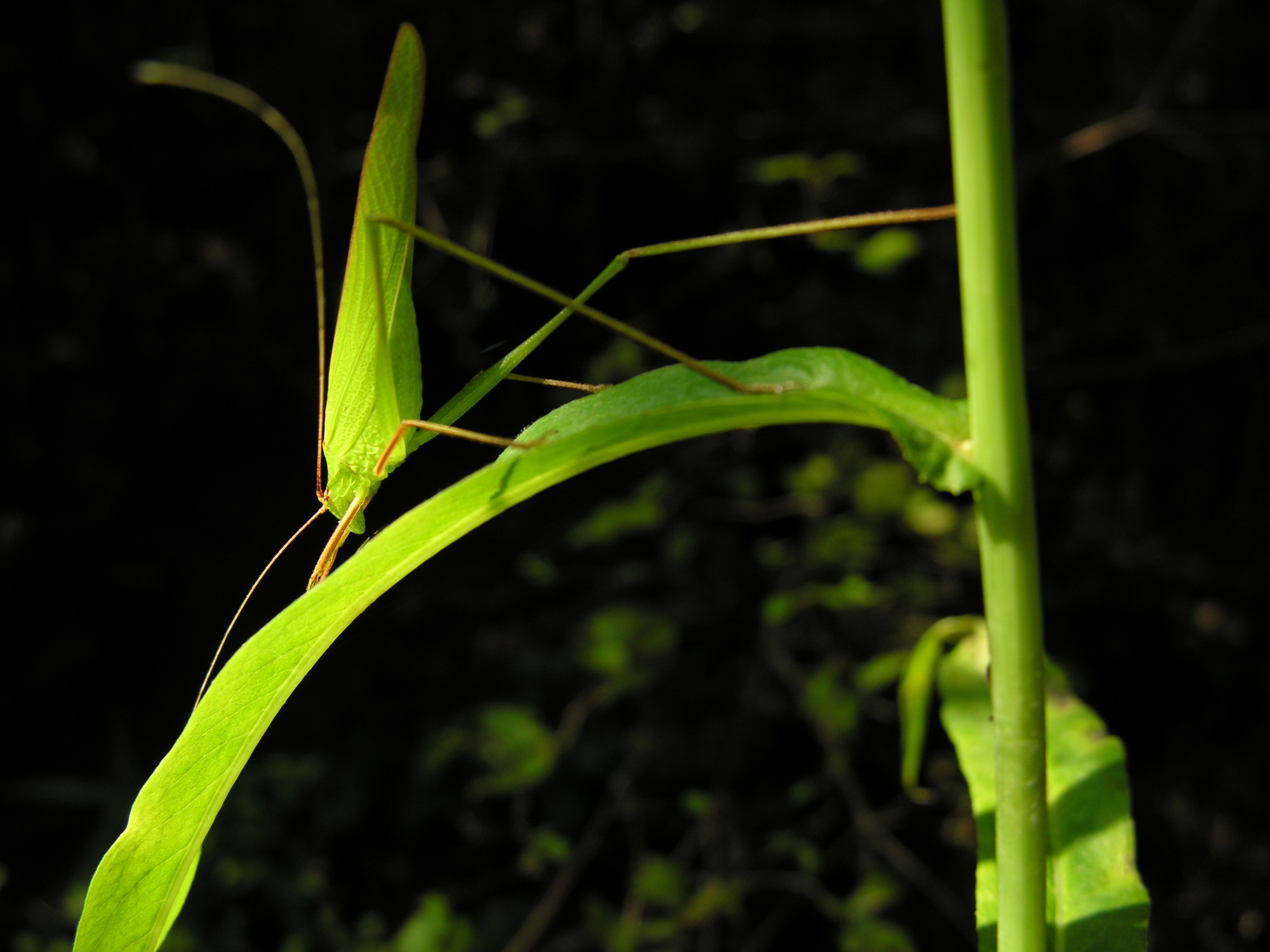 Ducetia japonica,maybe